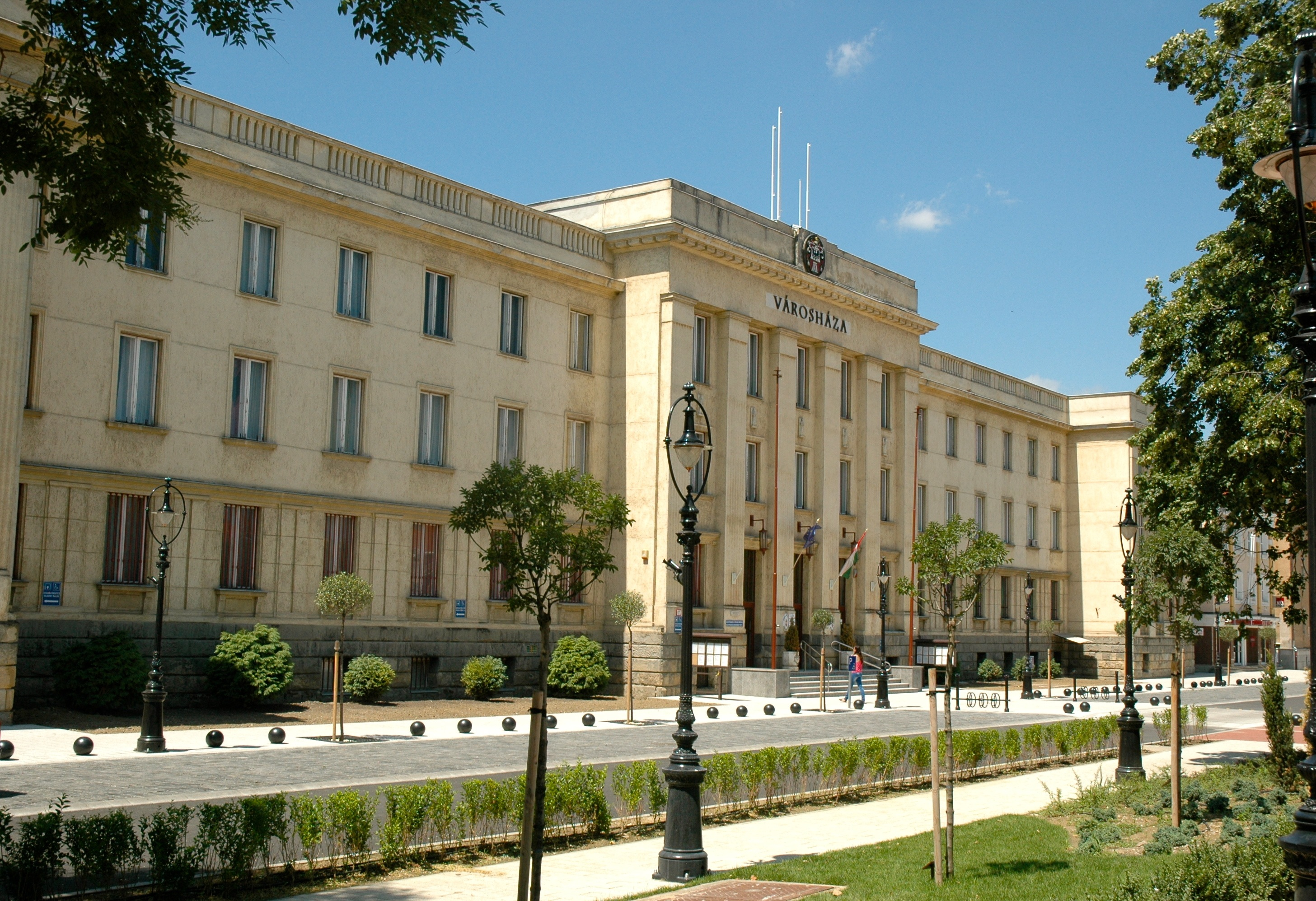 Town Hall in Nagykanizsa (Zala County, Hungary)